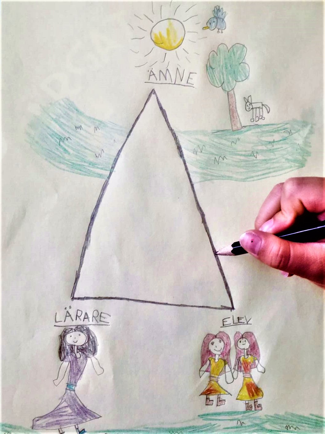 Preschool child draws triangel close-up